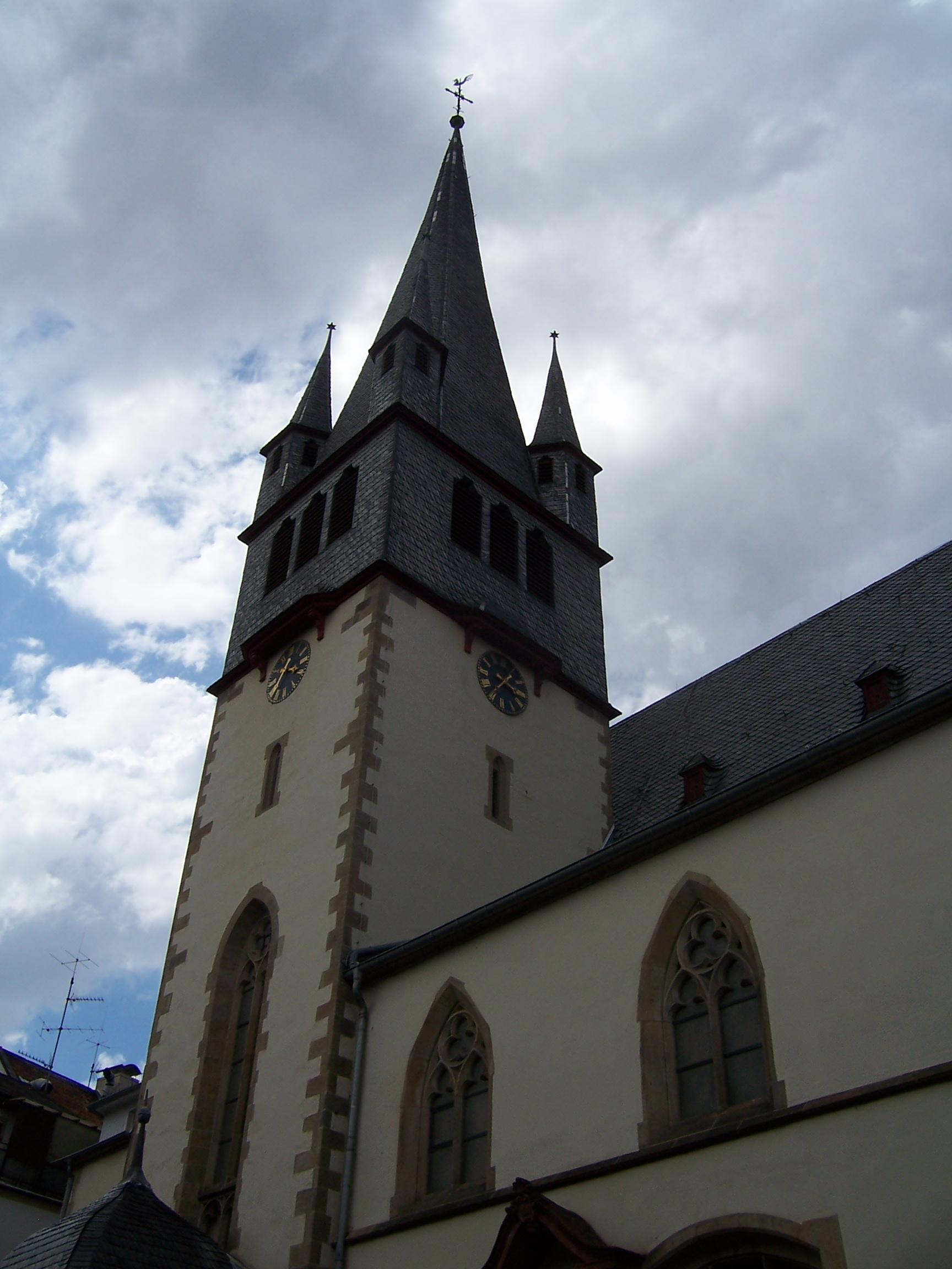 Tower of the Nikolauskirche (Saint Nicholas church) in Bad Kreuznach.